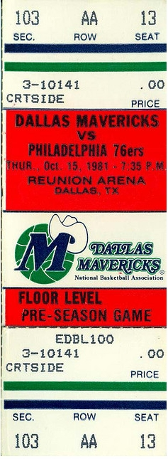 A ticket for a October 15, 1981 National Basketball Association pre-season game featuring the Philadelphia 76ers versus the Dallas Mavericks at Reunion Arena.